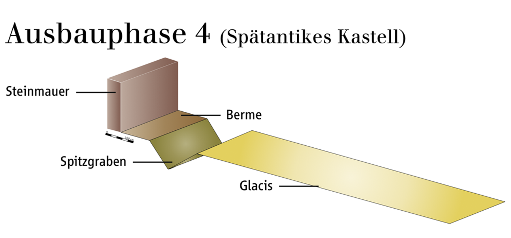 Fortifacation of fort comagena: stage of extension